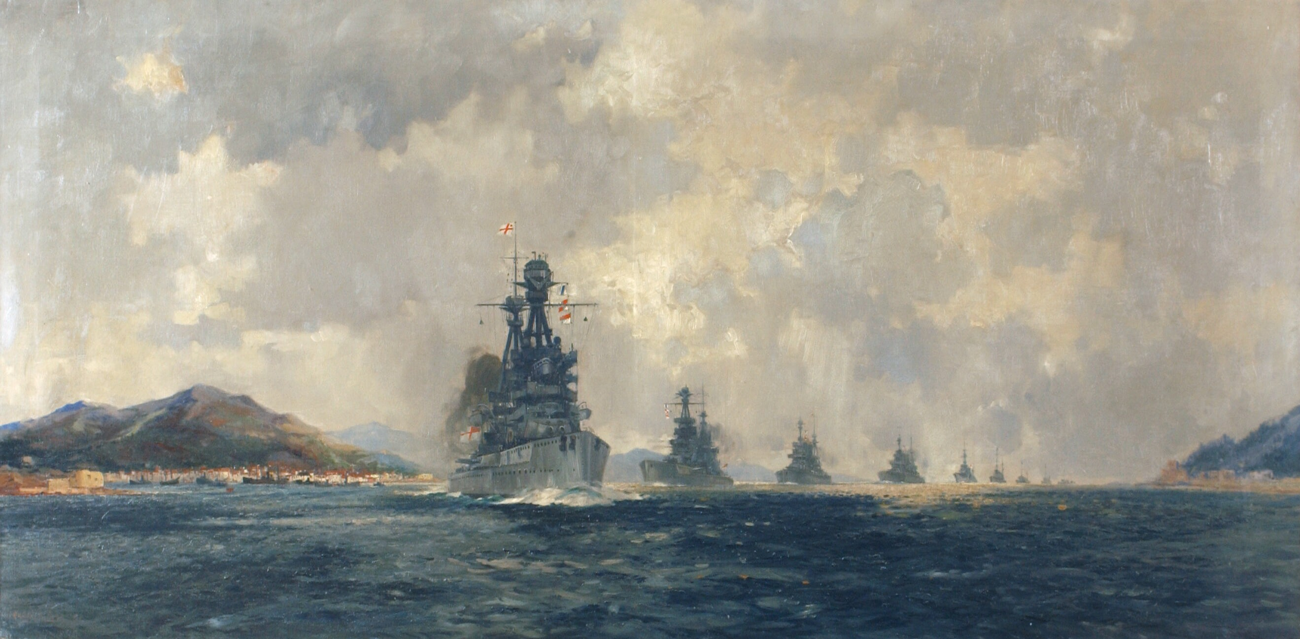 HMS Superb - flagship of the Commander-in-chief, Mediterranean, leading the British Fleet to Constantinople, November, 1918 image: A view of a Royal Navy fleet at sea, led by HMS Superb, sailing in coastal waters.